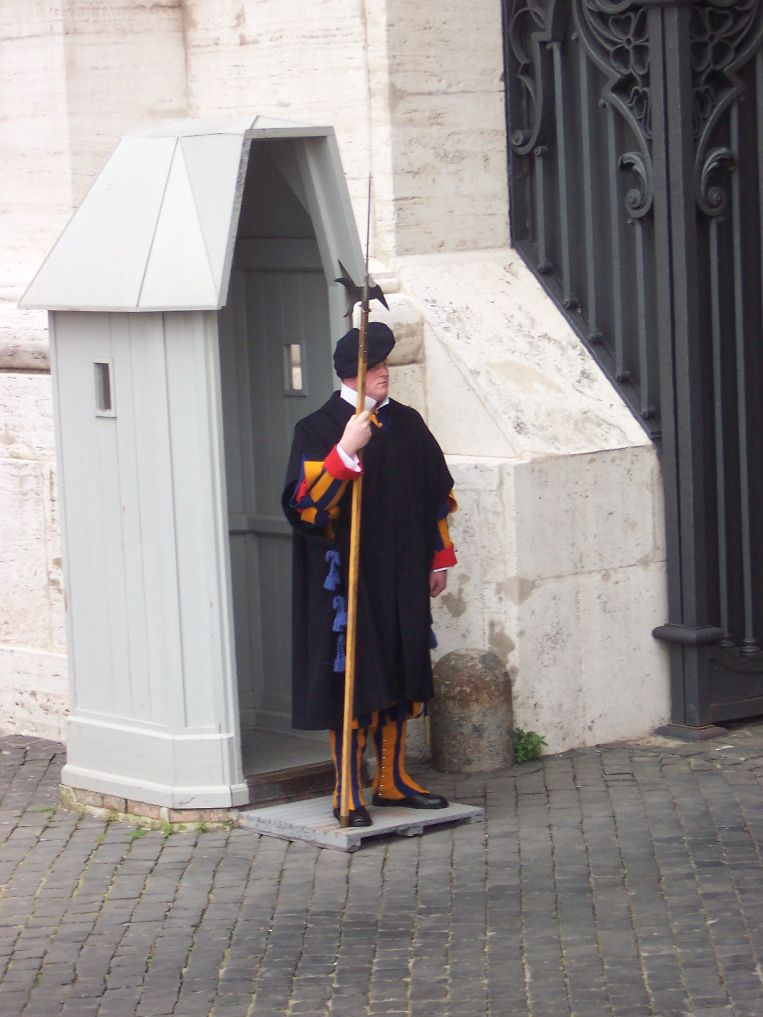 Swiss guard at Vatican